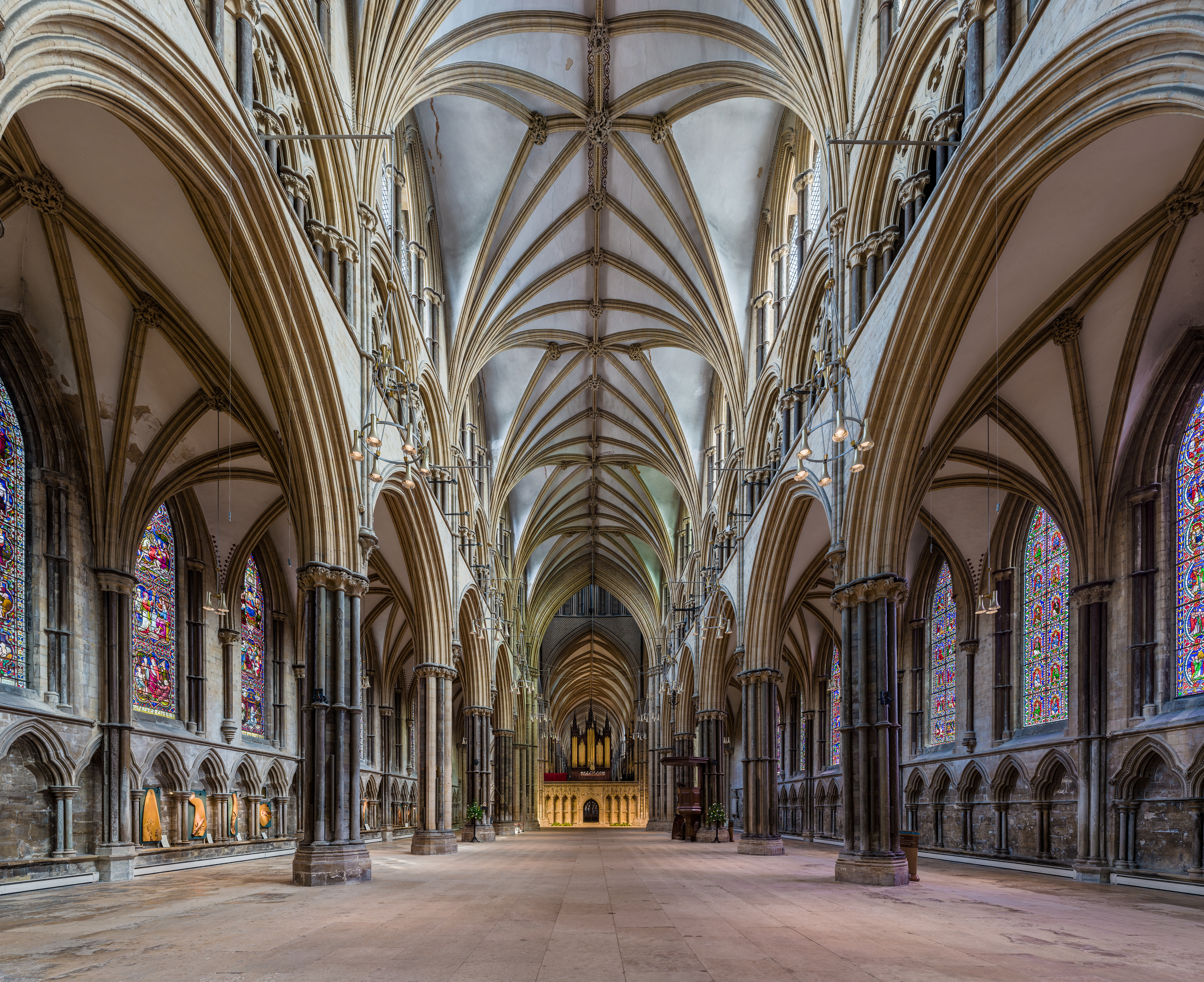 The nave of Lincoln Cathedral looking east, in Lincolnshire, England.